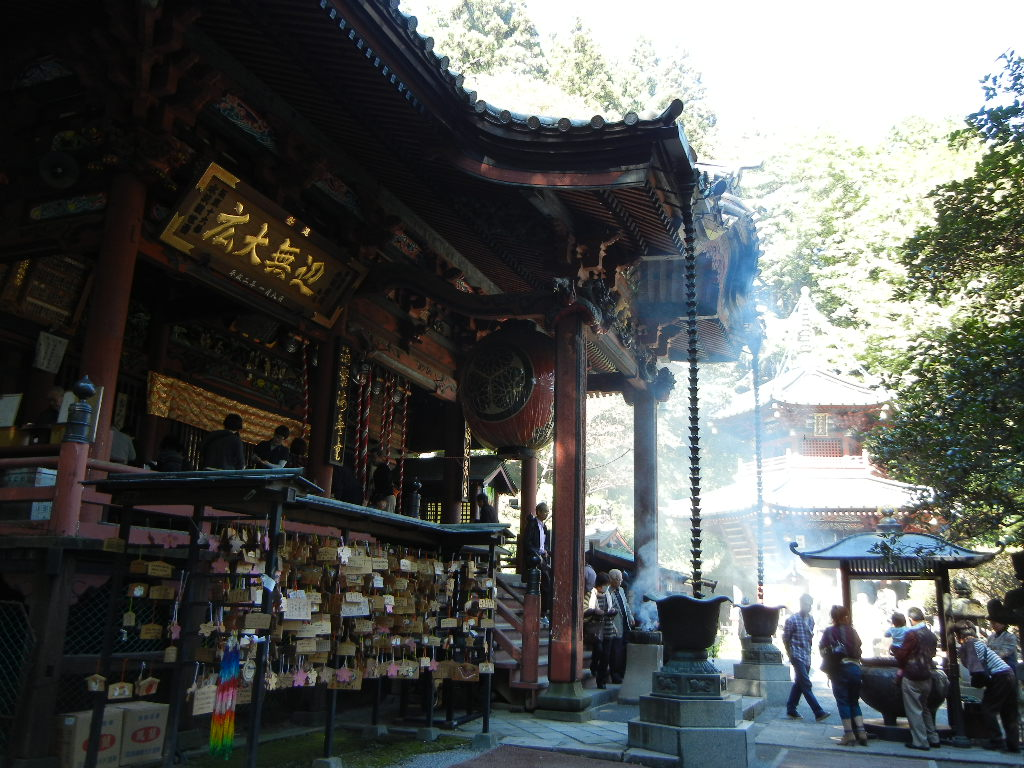 Mizusawa-Kannon_Shibukawa. 群馬県渋川市にある「水沢観音」, Shibukawa (Gunma).